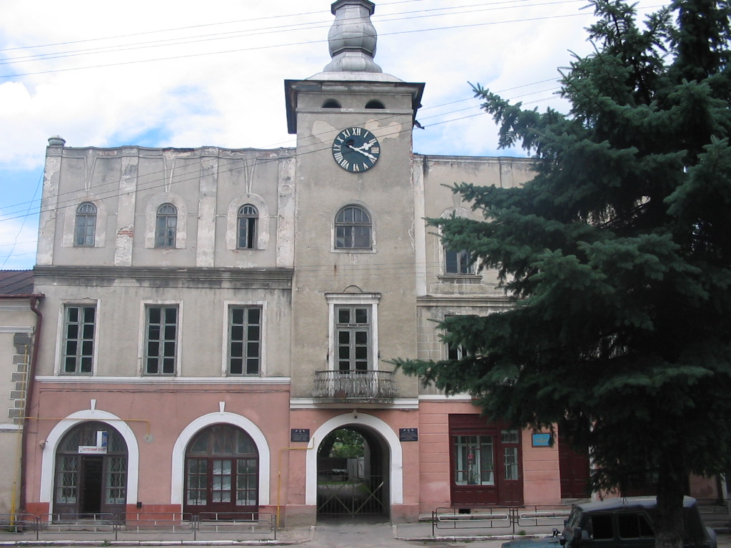 Old town hall in Pidhaytsi (ПІДГАЙЦІ), Ternopil region, western Ukraine